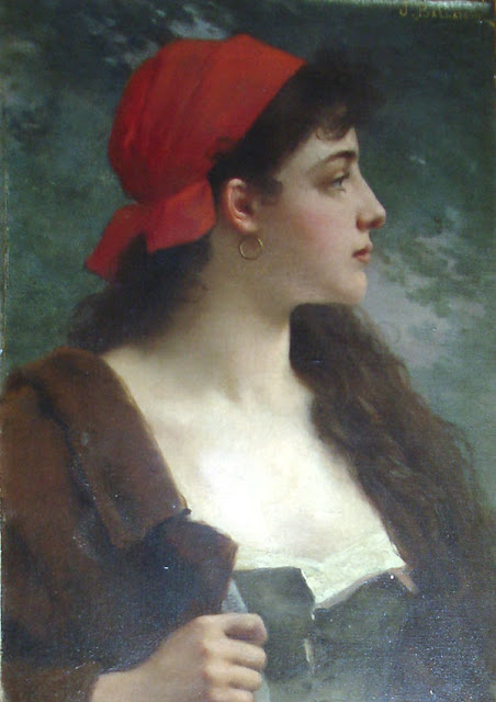 Jules Frédéric Ballavoine. Sauvageonne